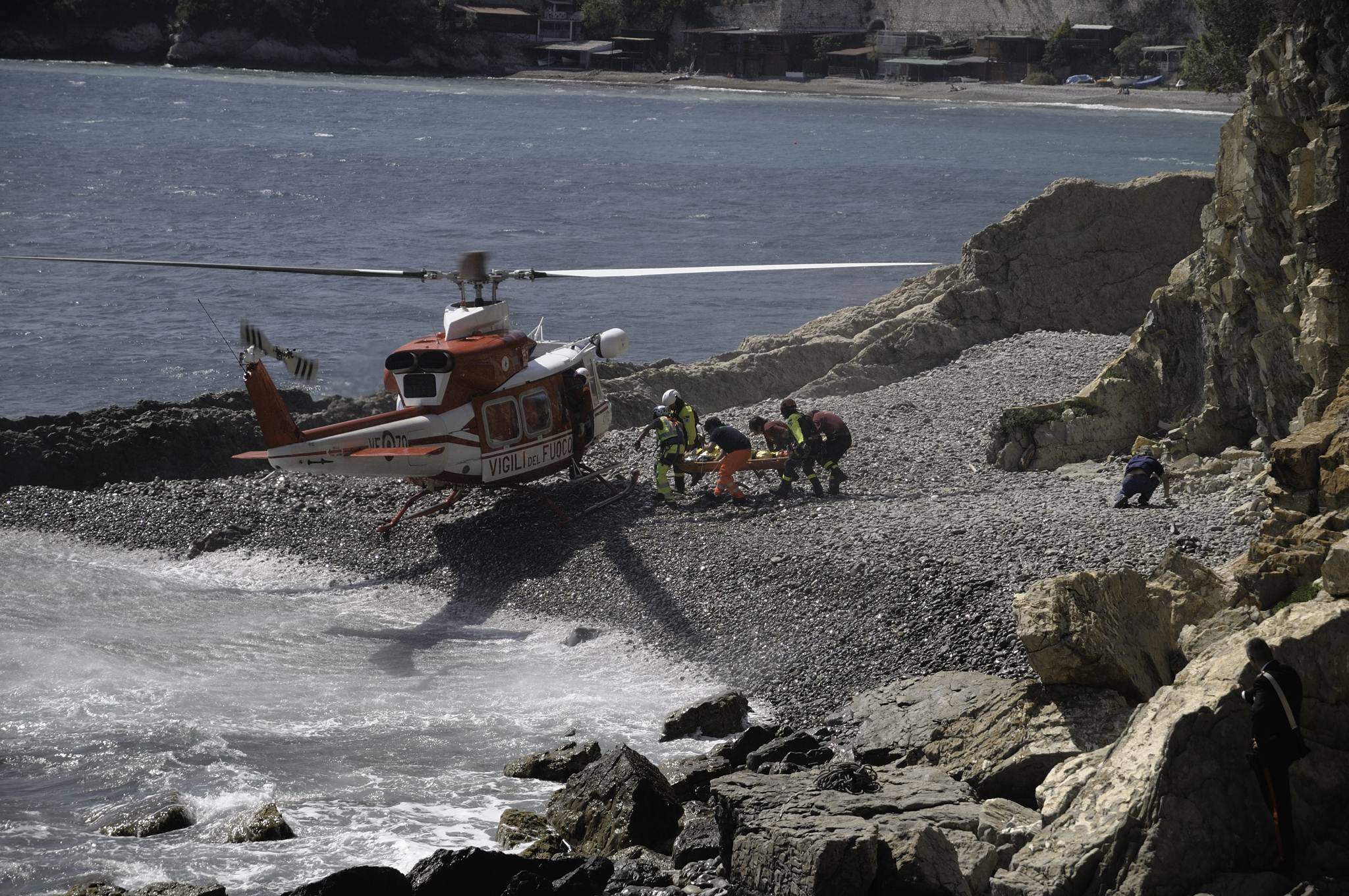 hazardous landing for an italian firefighters helicopter in order to rescue a fallen man.